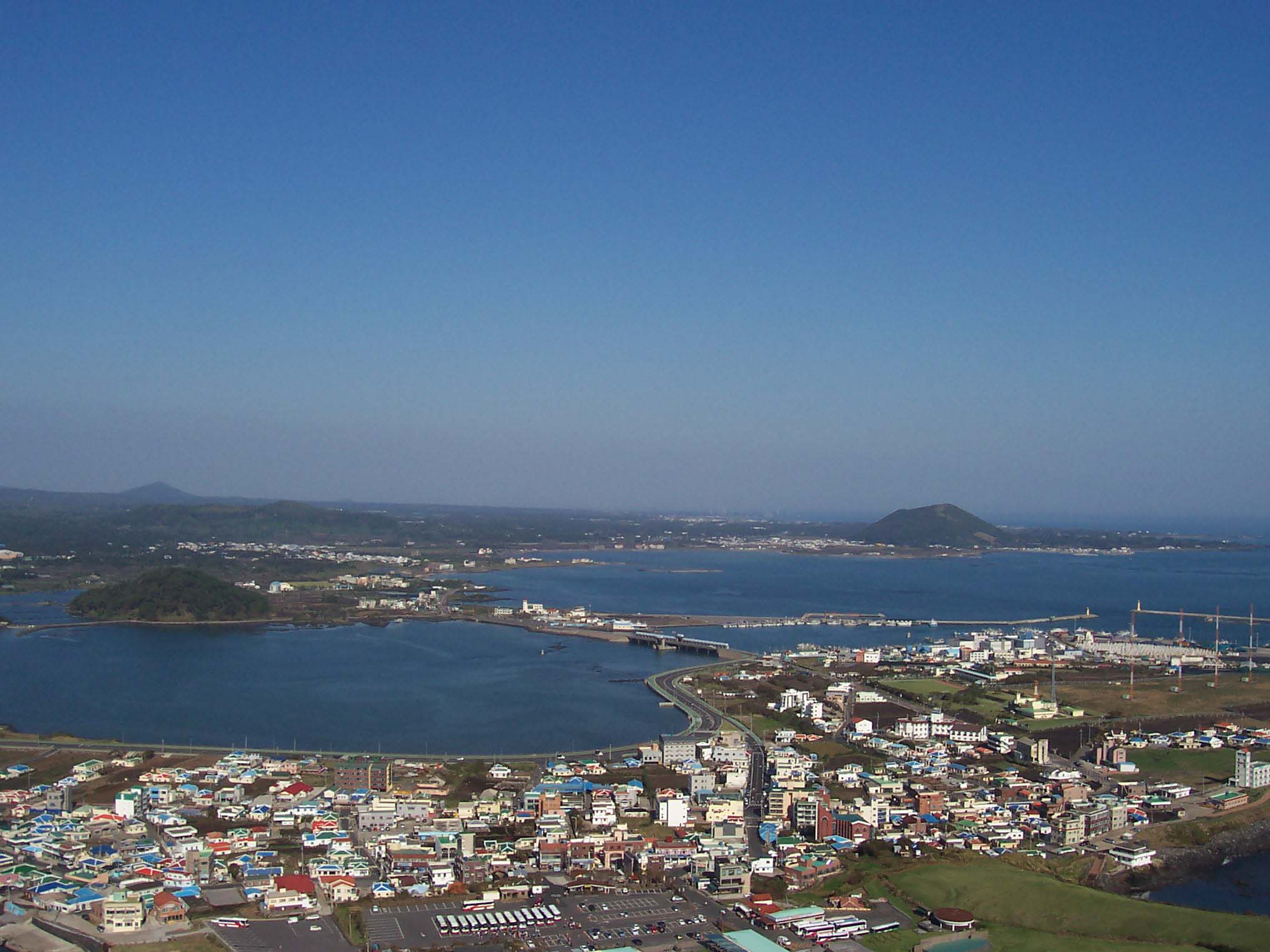 View from top of Seongsan Ilchulbong, Jeju, South Korea